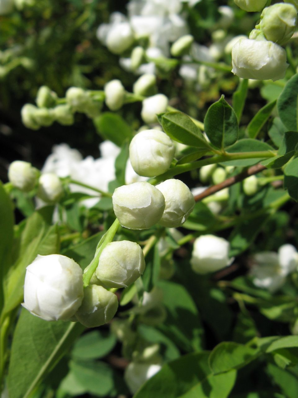 Pearls